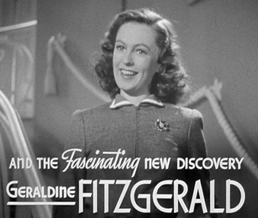 Cropped screenshot of Geraldine Fitzgerald from the trailer for the film Dark Victory.